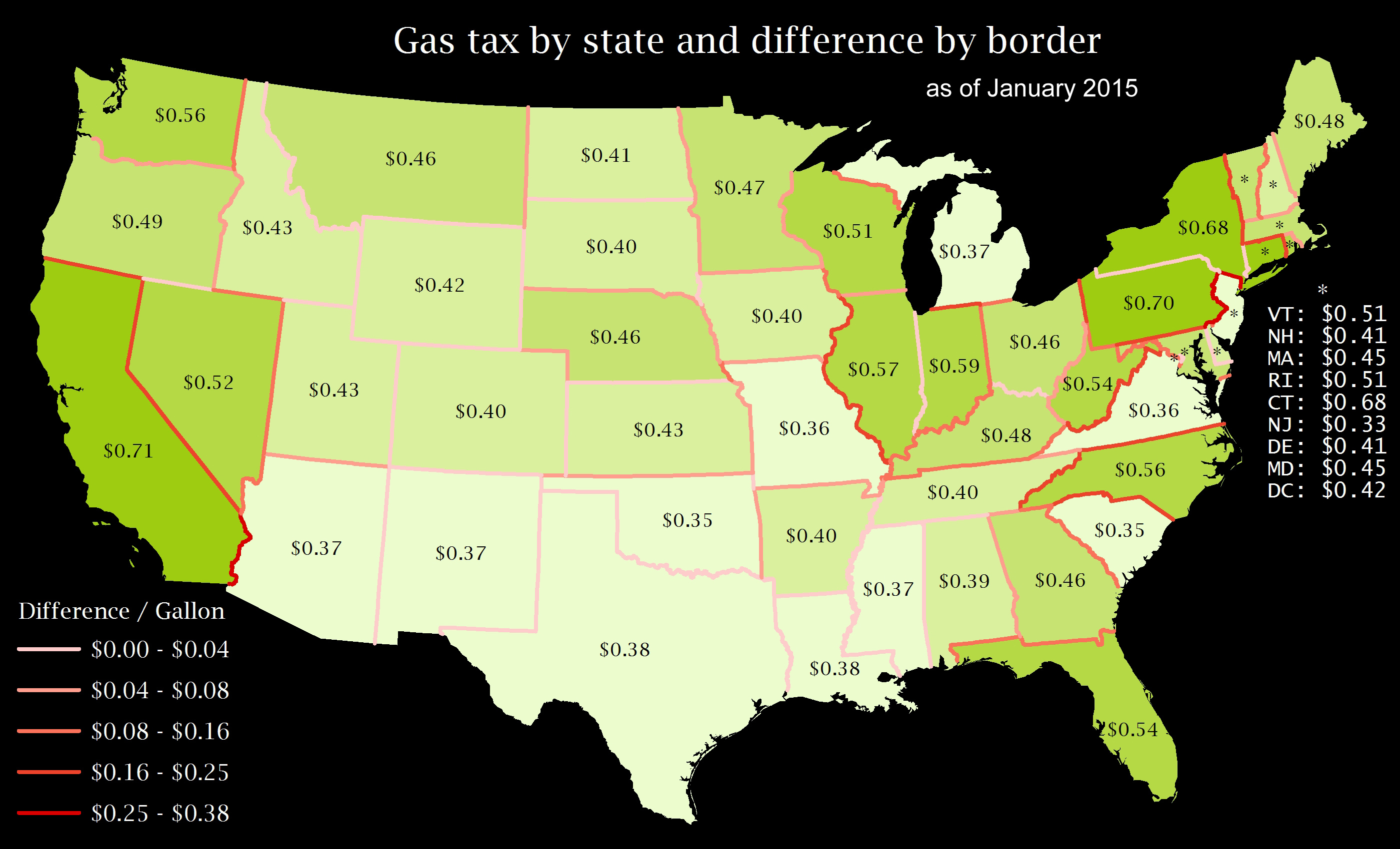 Gas tax by state